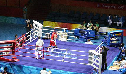 Heats of the light-heavy weights featuring Egypt vs. Belarus - Ramadan Yasser (EGY) v. Ramazan Magomedov (BLR)